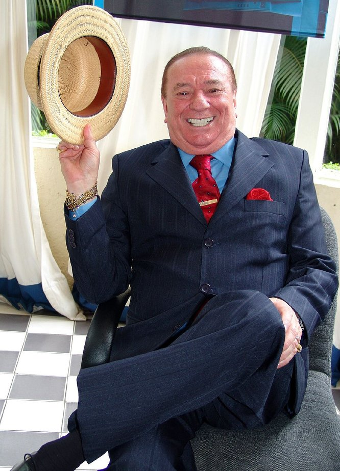 Brazilian TV host Raul Gil.